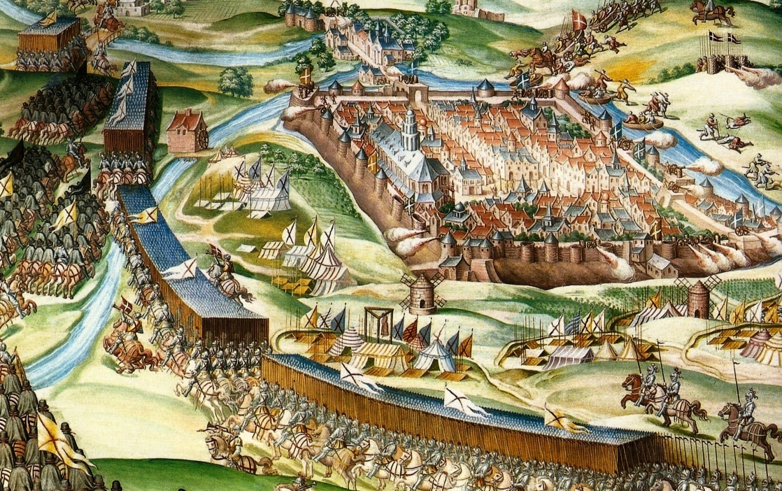 Siege of Saint Quentin